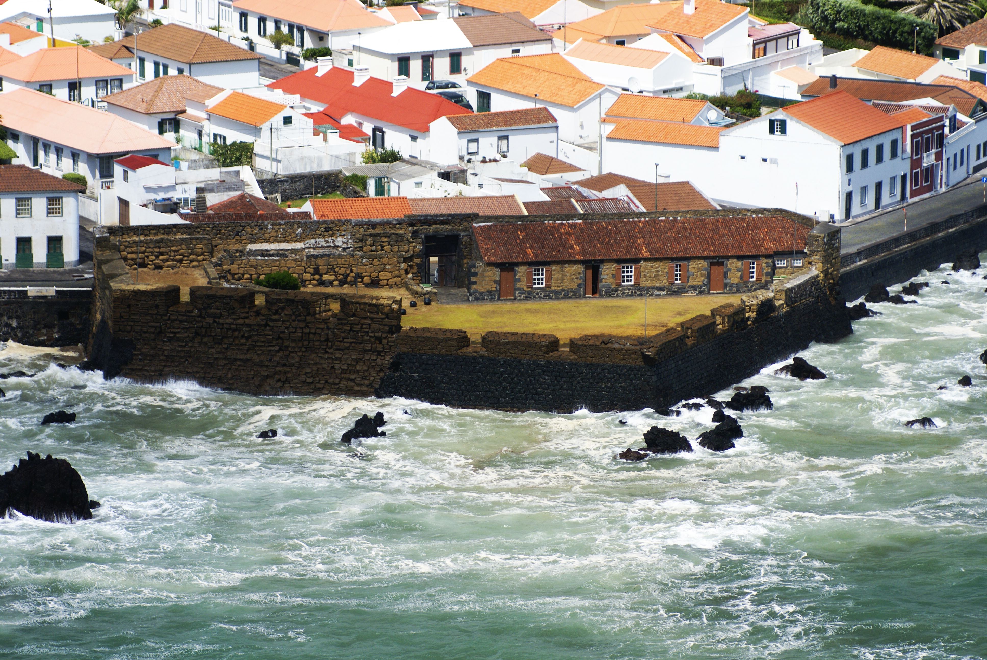 The Fort of São Sebastião, as seen from Monte da Guia, in the bay of Porto Pim, Horta, Faial (Azores), Portugal